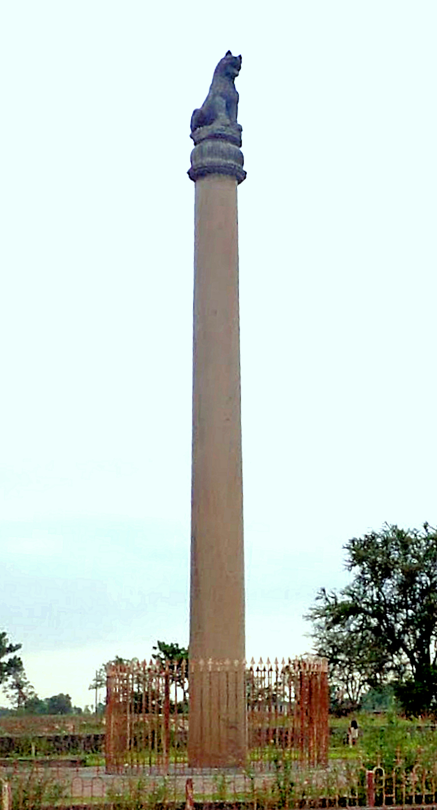 Lauria Nandangarh pillar of Ashoka side view